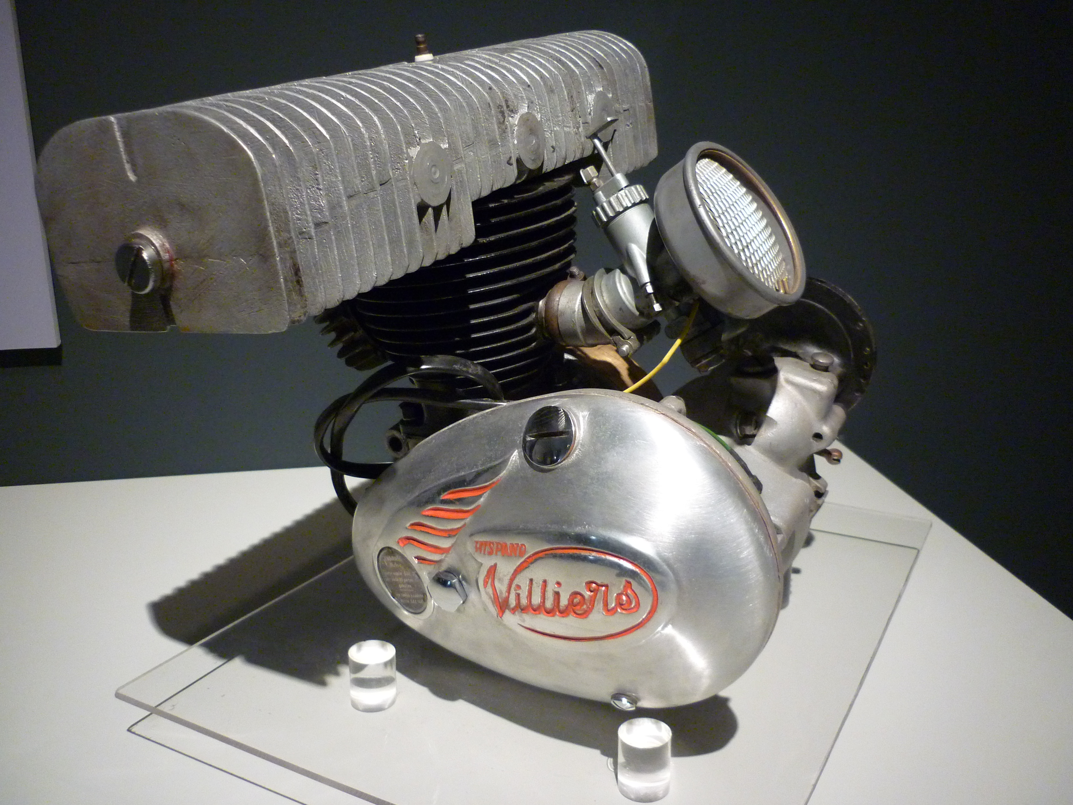 Hispano Villiers engine (1959) used in microcars